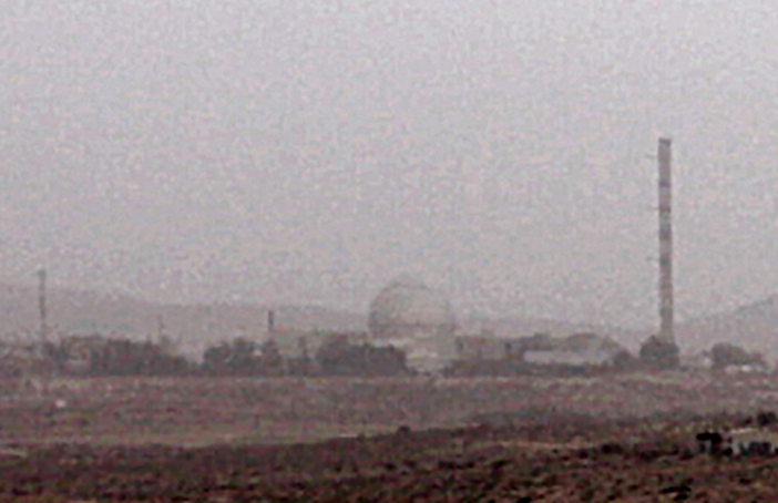 Negev Nuclear Research Center